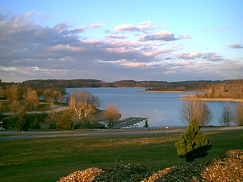 Codorus State Park facing North East towards the marina.